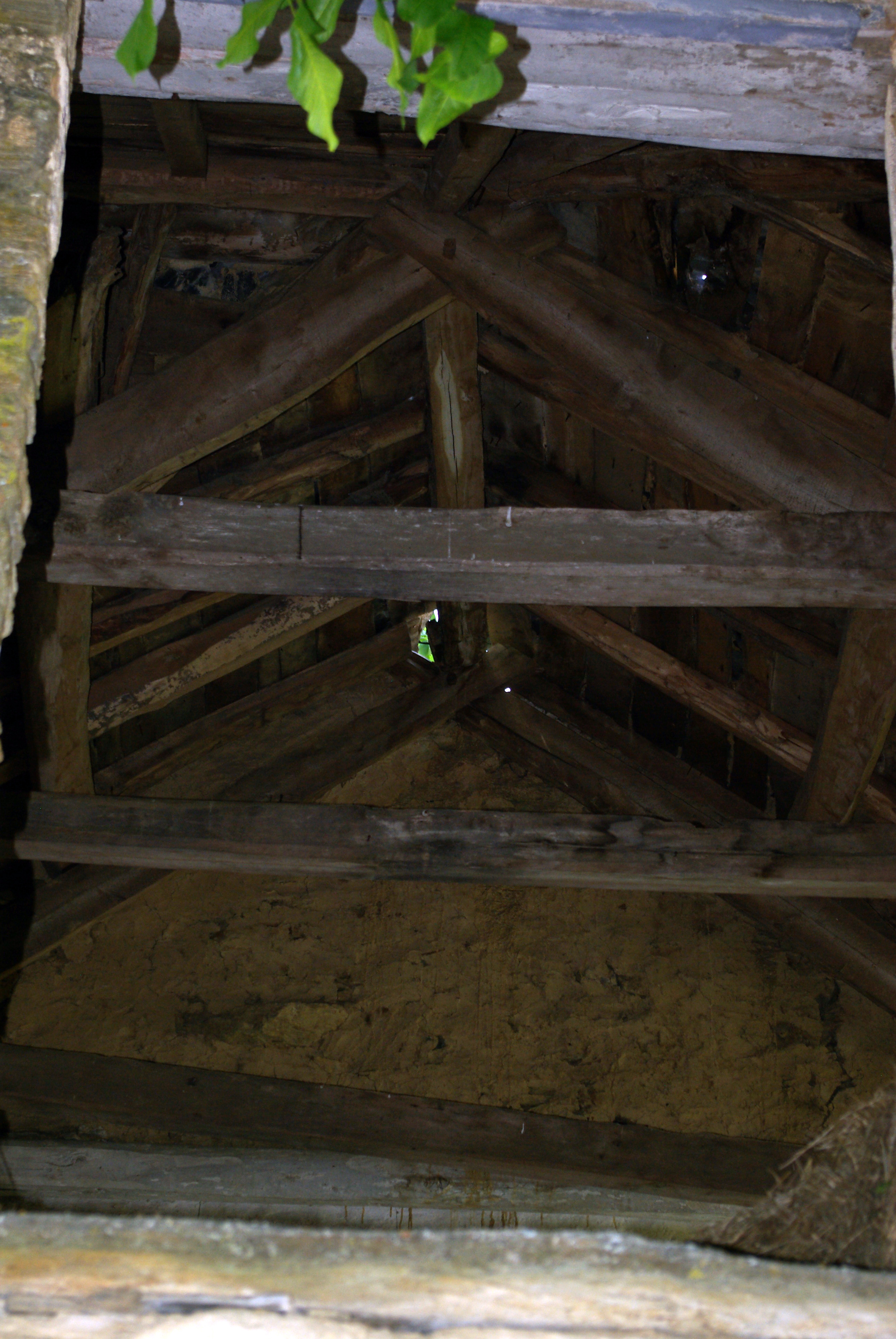 Ruins in Castro La Lomba (Riello, León, Spain).